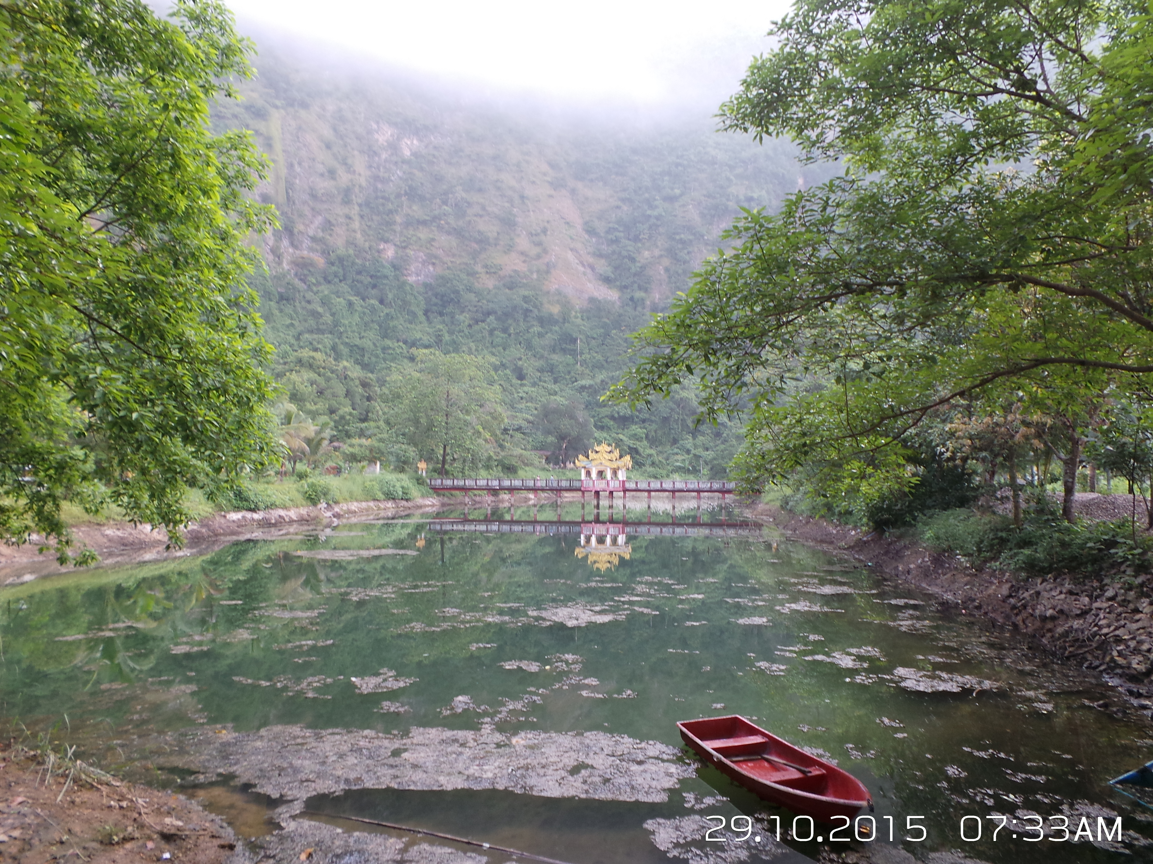 Zwe Ga Bin Lake at the foot of Zwe Ga Bin Mountain, Hpa-An, Kayin State မြန်မာဘာသာ: ဇွဲကပင်တောင်ခြေရှိ ဇွဲကပင်ကန်၊ ဘားအံ၊ ကရင်ပြည်နယ်